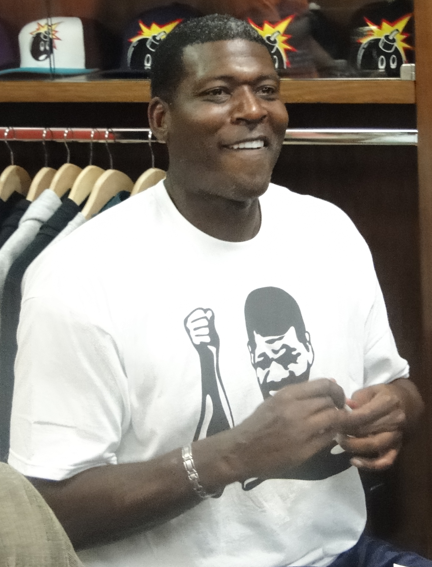 Larry Johnson at a promotional appearance at a sporting goods store in Teaneck, New Jersey.